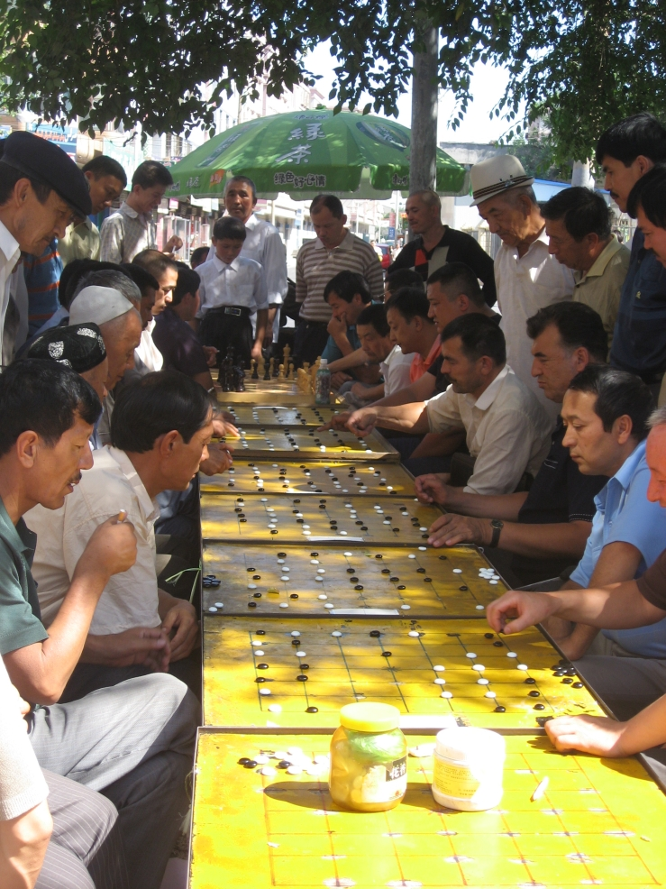 Men in an Urumqi neighborhood playing Xinjiang Square Chess(新疆方棋).